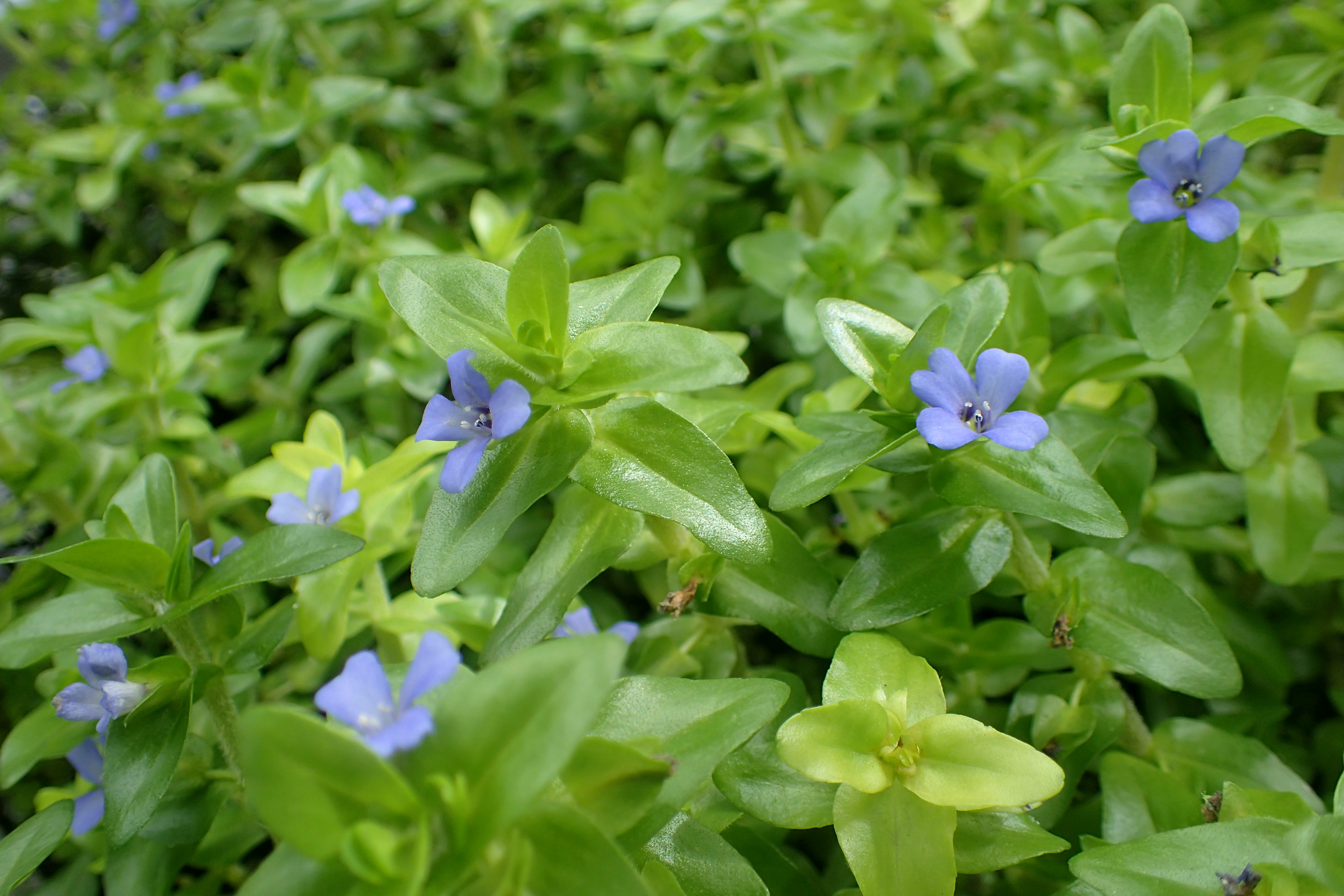 Bacopa caroliniana at the New York Botanical Garden